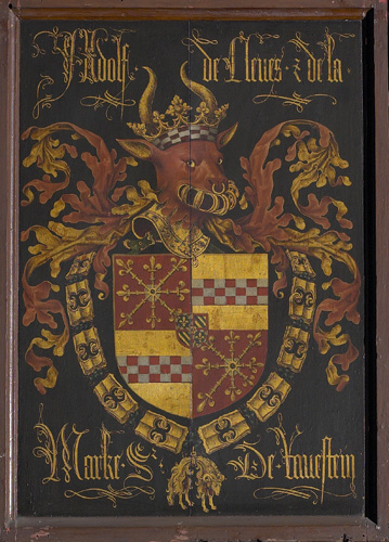 Coat-of-Arms of Adolf of Cleves in the Onze-Lieve-Vrouwekerk (Brugge) in Bruges, 1468